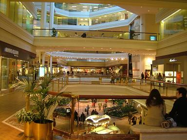 Copley Place. Building in Boston,United States, Boston.